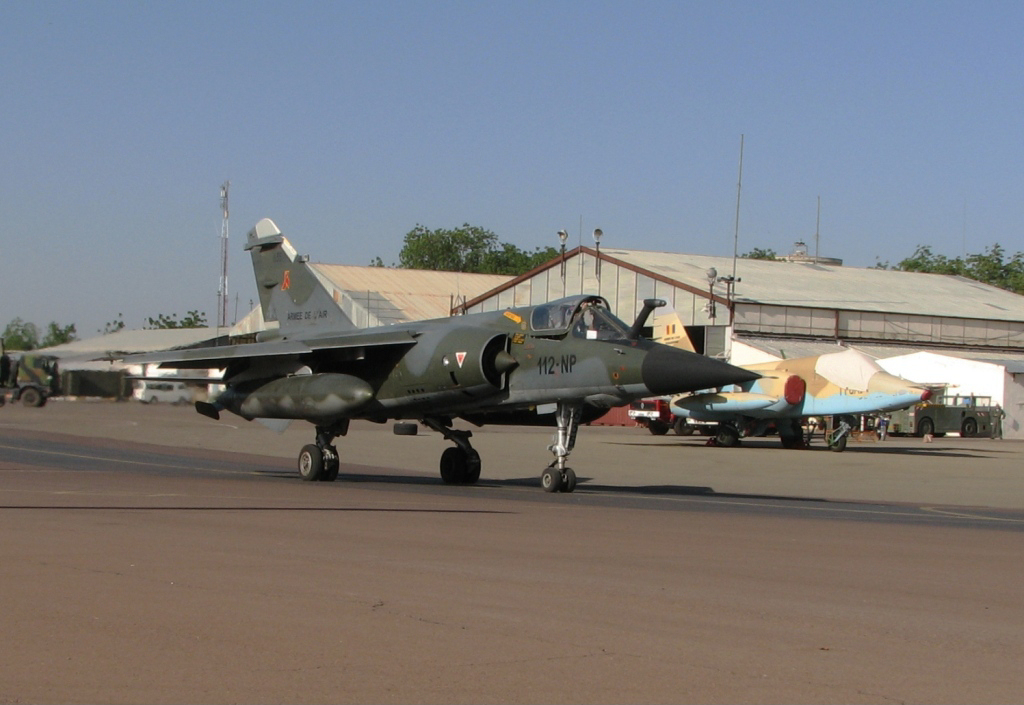 French Air Force Dassault Mirage F1CR at N'djamena Airport